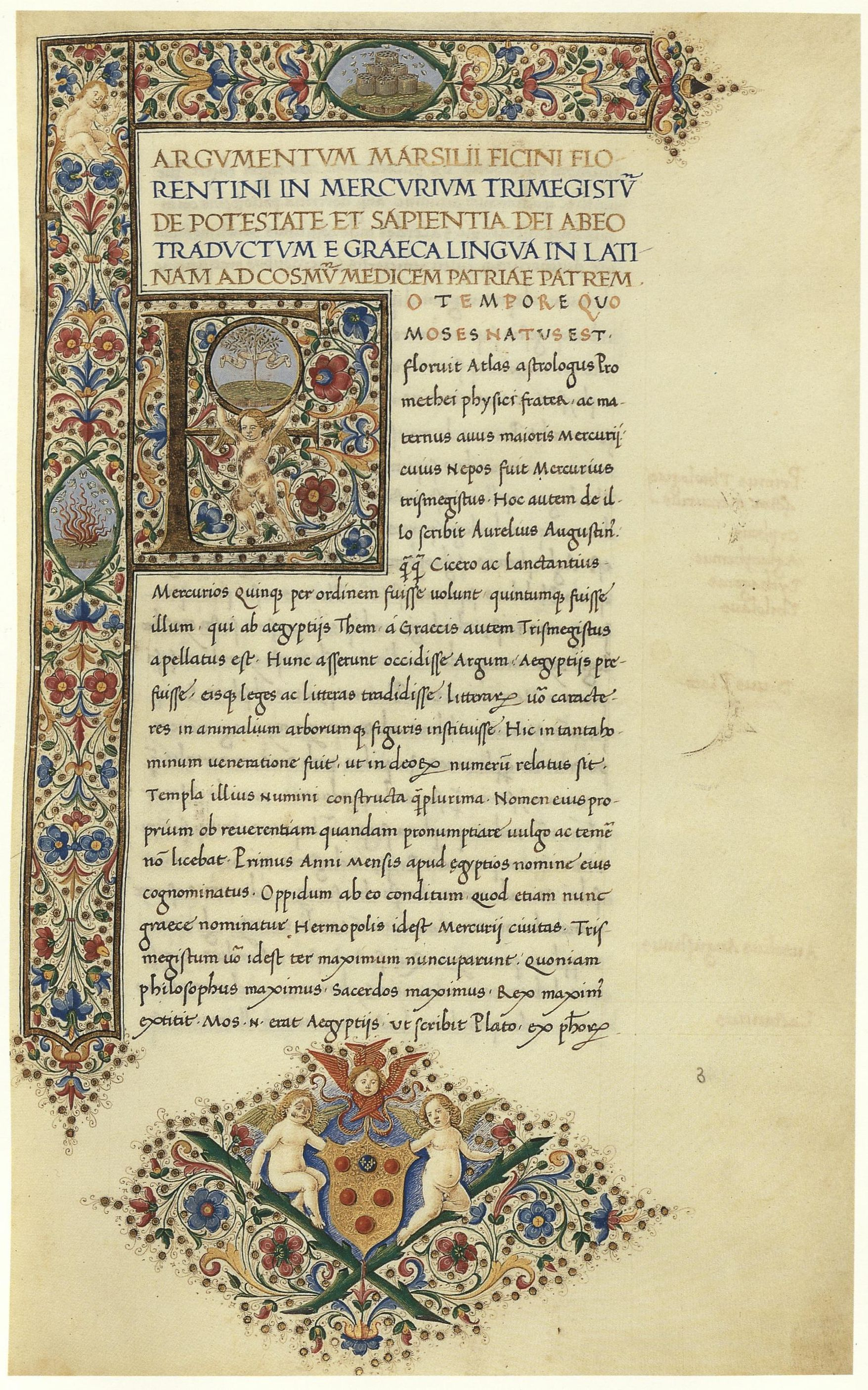 Marsilio Ficino’s introduction (argumentum) to his Latin translation of the Corpus Hermeticum in a manuscript dedicated to Lorenzo il Magnifico. Manuscript Florence, Biblioteca Medicea Laurenziana, Plut. 21.8, fol. 3r.